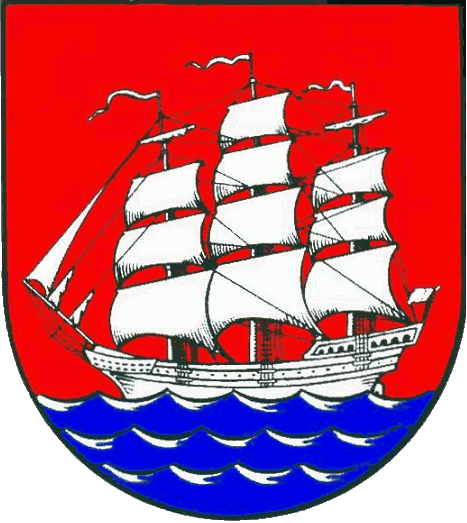 Coat of arms of Elmshorn Blasonierung: In Rot auf blau-silbernen Wellen segelnd ein silbernes Vollschiff mit gerefften Bramsegeln am Fock- und Kreuzmast.